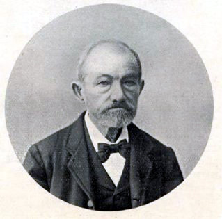 Julius Grossmann, Clockmaker (1829–1907)